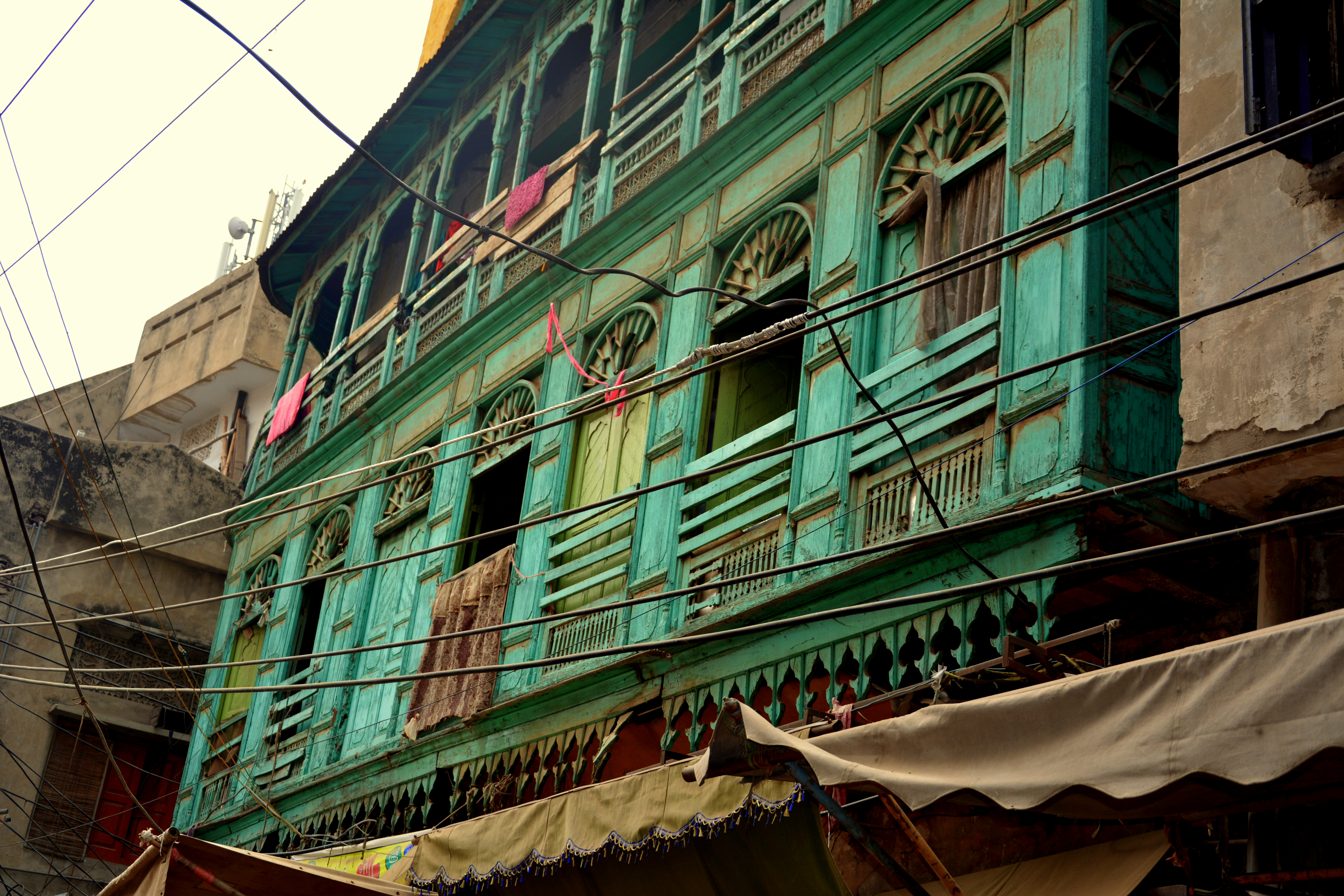 Bhati Gate - A beautiful building inside Bhatti Gate This is a photo of a monument in Pakistan identified as the PB-48